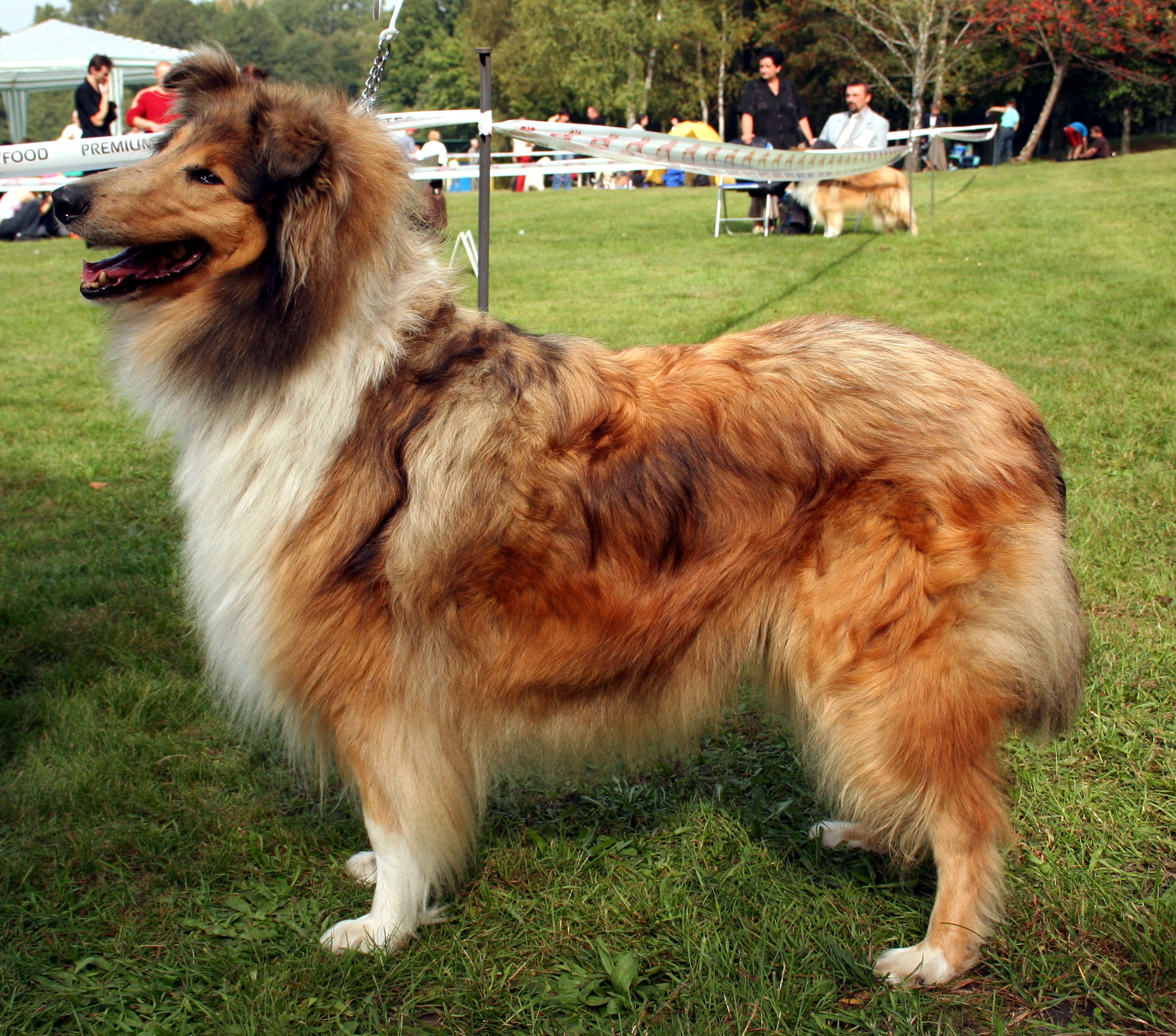 Rough Collie,veteran class JESSI GOLD Actis, national dog show in Rybnik - Kamień